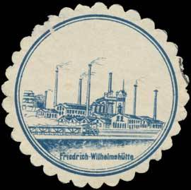 poster stamp Friedrich-Wilhelms-Hütte